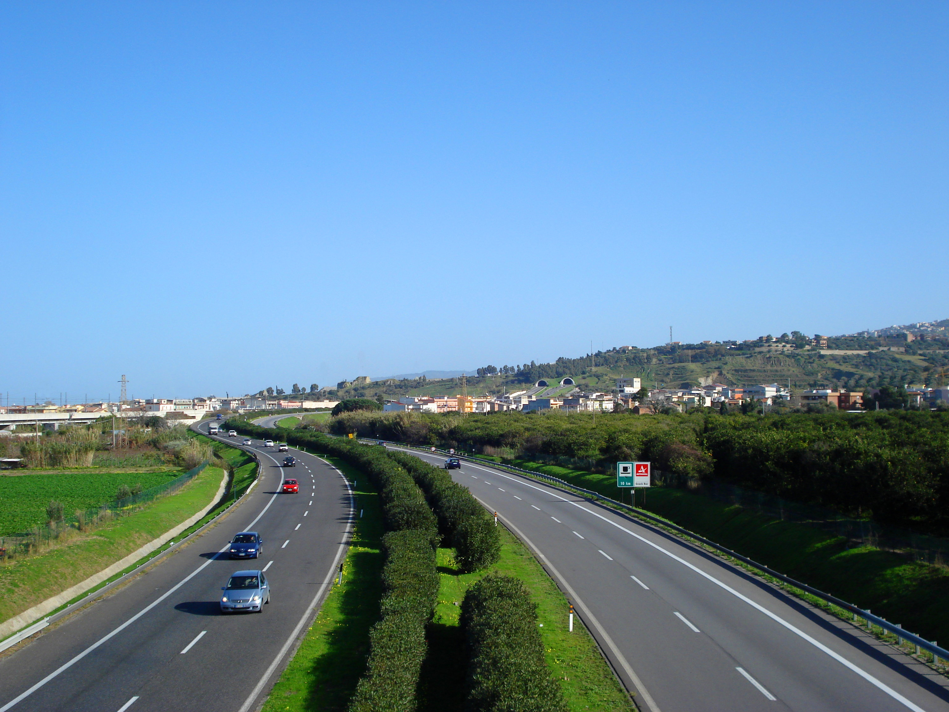 Italian highway A20 in the neighbourhood of Torregrotta.